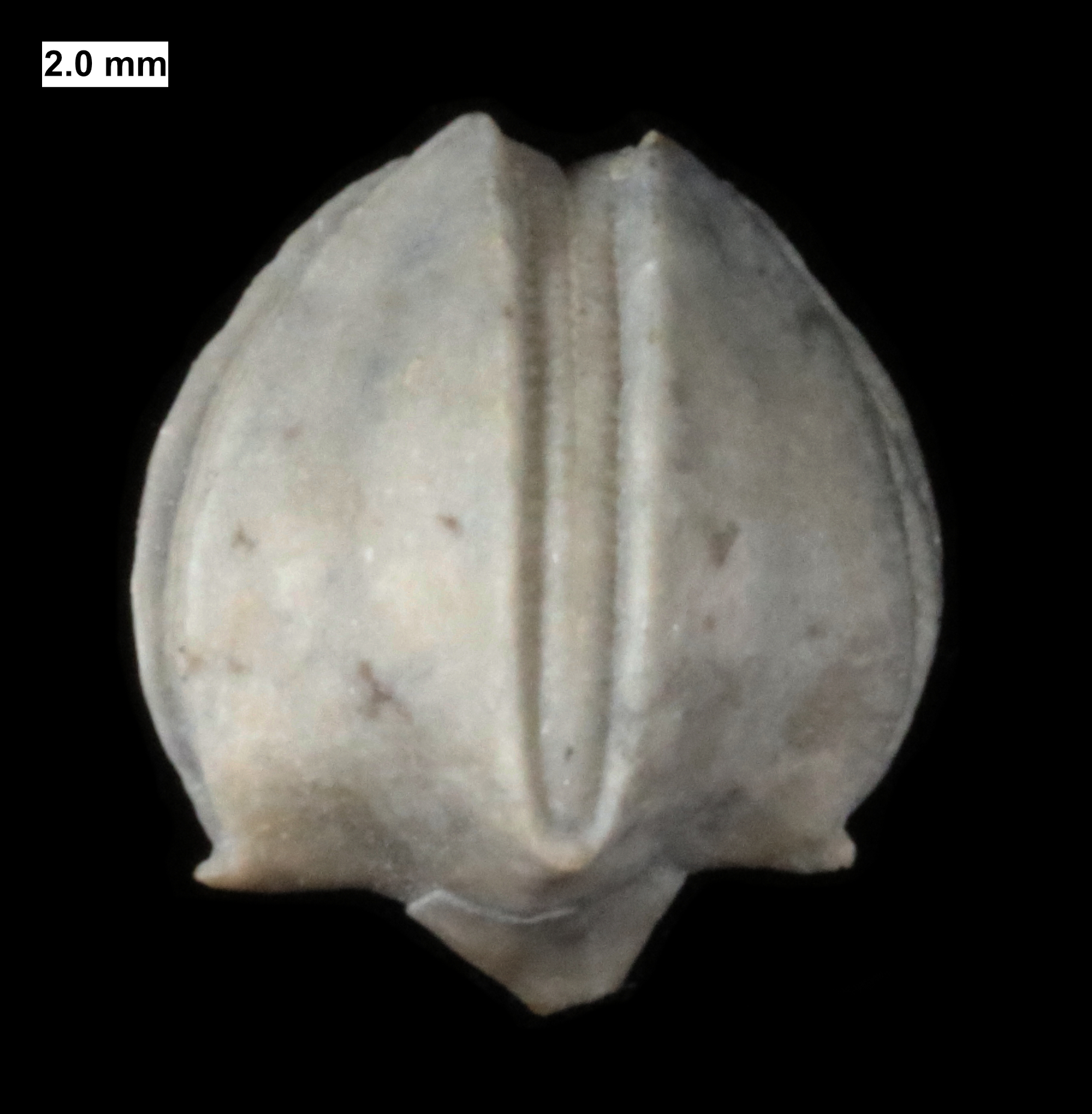 The Middle Devonian blastoid Hyperoblastus; Milwaukee Formation; Lindwurm Member; Milwaukee County, Wisconsin; WESM-KCG 890; photograph originally published in K.C. Gass, J. Kluessendorf, D.G. Mikulic, and C.E. Brett, 2019. Fossils of the Milwaukee Formation: A Diverse Middle Devonian Biota from Wisconsin, USA. Siri Scientific Press, Manchester, UK.